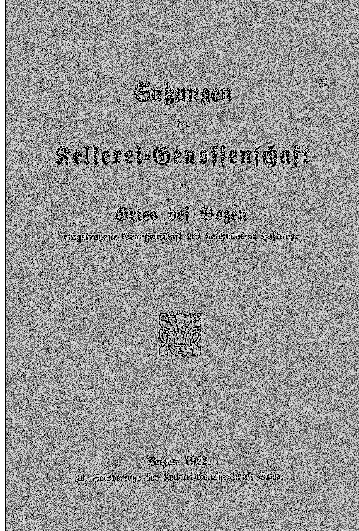 Satzungen der Kellerei-Genossenschaft in Gries bei Bozen 1922, Cover